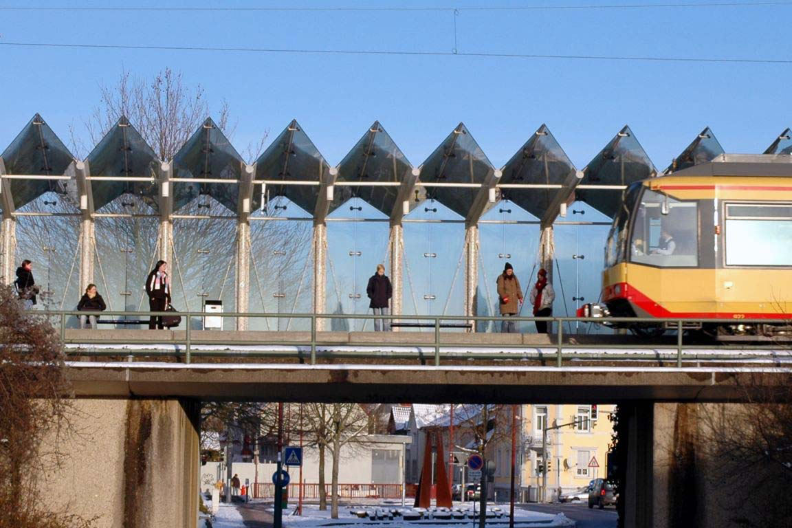 station Bretten-Stadtmitte of the Kraichgaubahn.